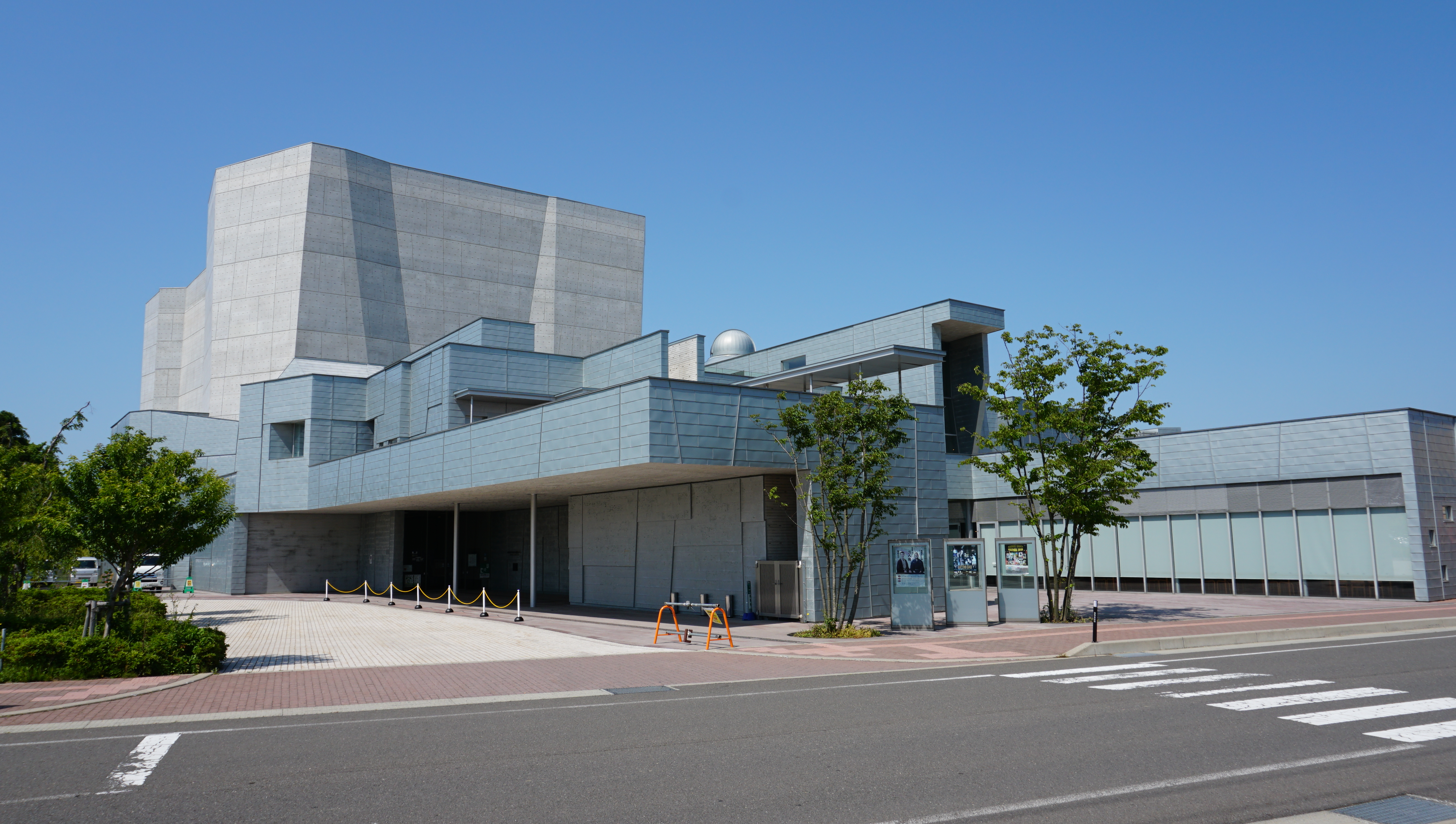 Yurihonjo City Cultural Center "Kadare" is the cultural and educational complex facility in Yurihonjo City, Japan